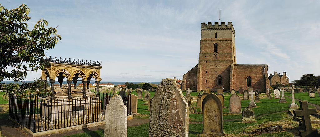 Grace Darling's Memorial at Bamburgh Church, Northumberland, England. This is not her grave which is in a humble family vault about 20 yards to the east. The memorial was paid for by public subscription and erected shortly after her death in 1842. Placed, at the request of local seamen, so as to be clearly visible from the sea.